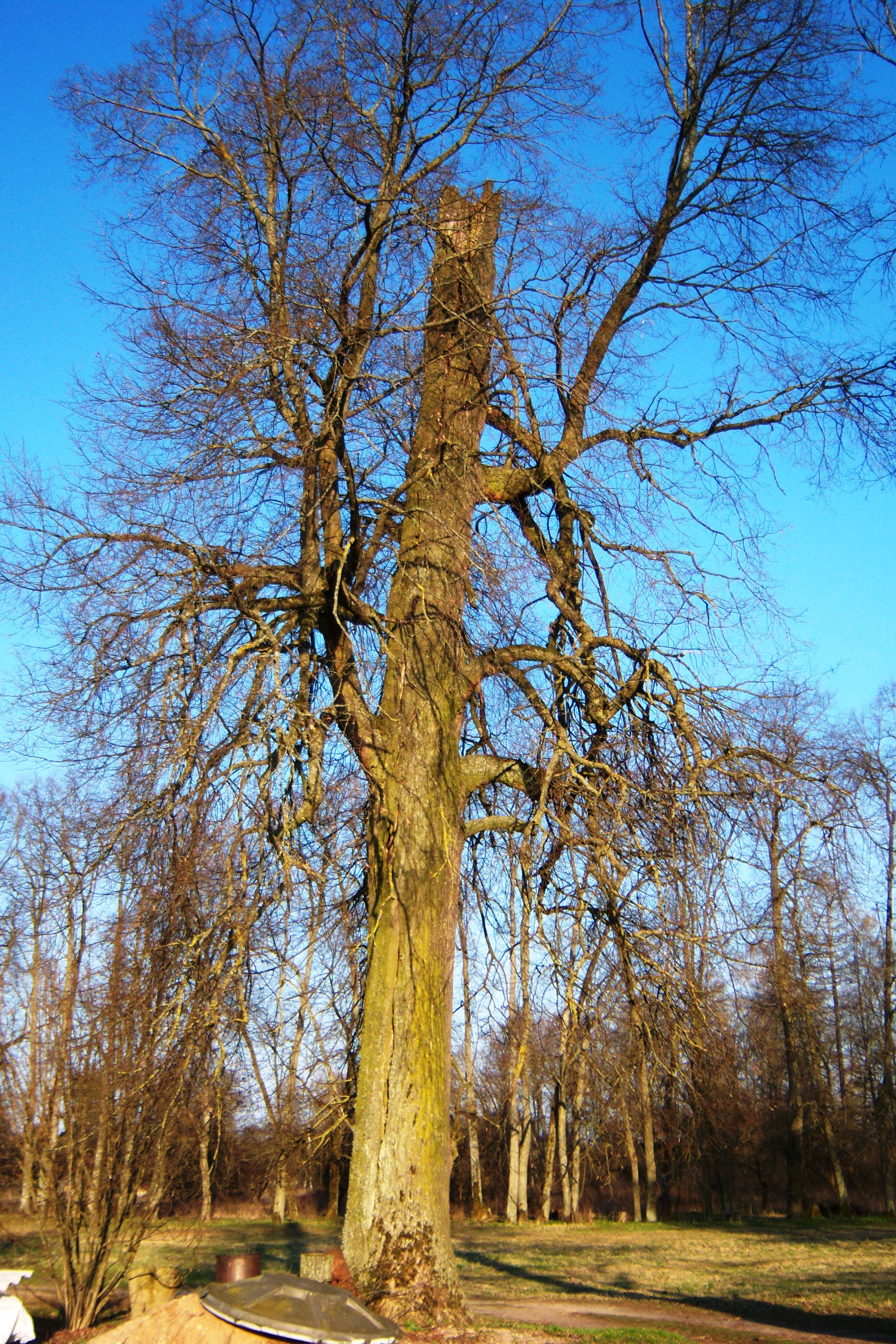 Jundeliškės lime tree, Birštonas municipality, Lithuania